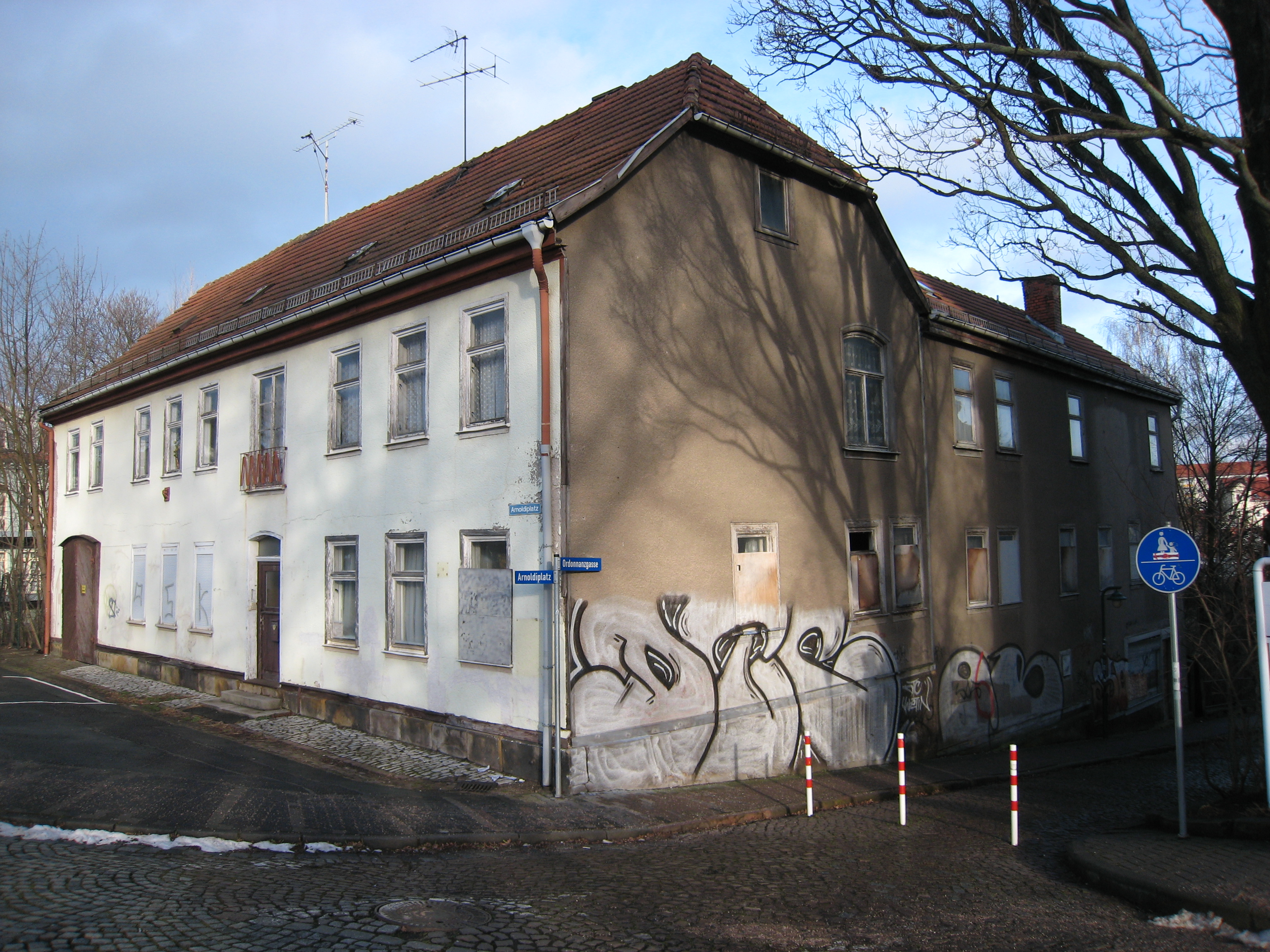 House Arnoldiplatz 5 Gotha